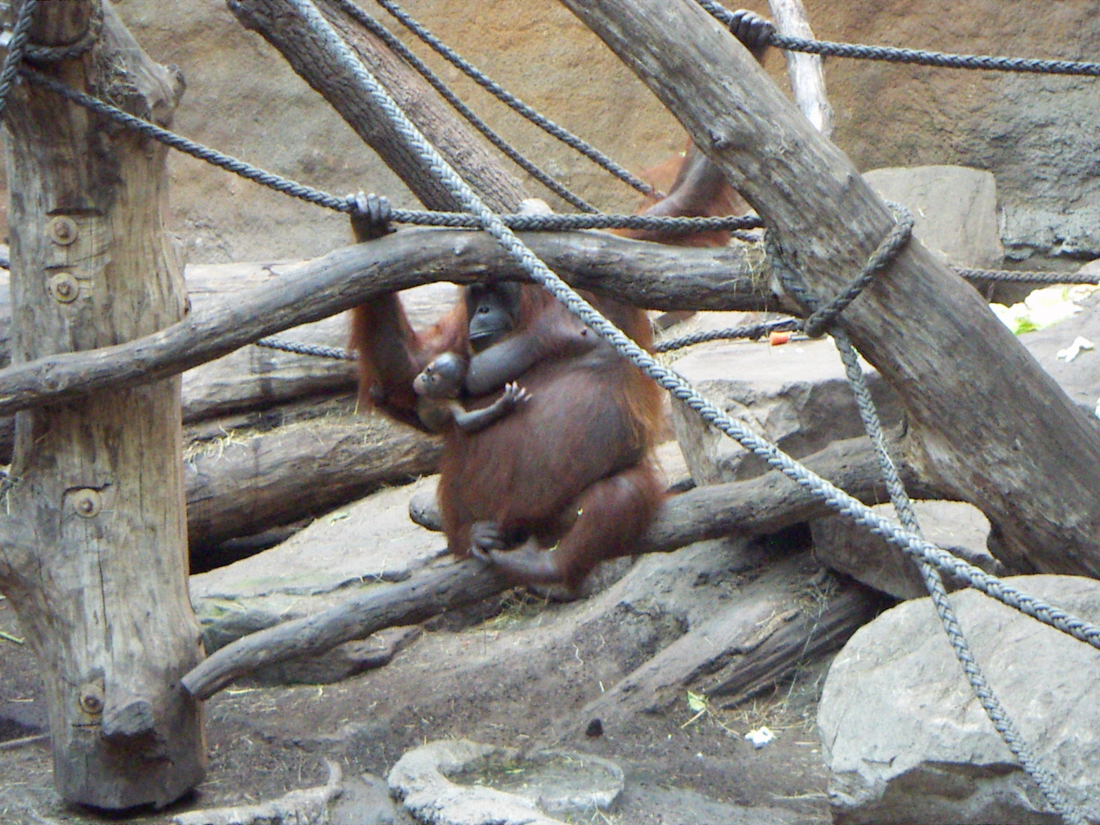 Orang Utan baby in the zoo of Münster (Wesphalia)